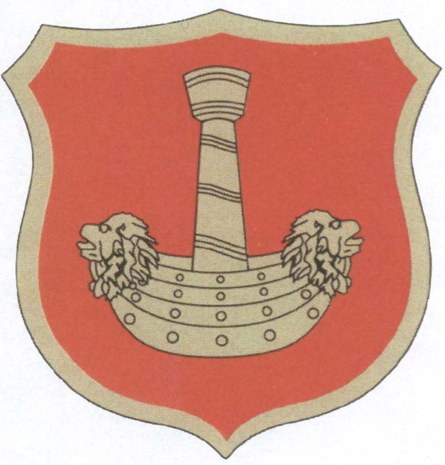 Coat of arms of Łask